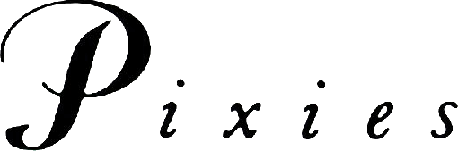 Pixies Logo